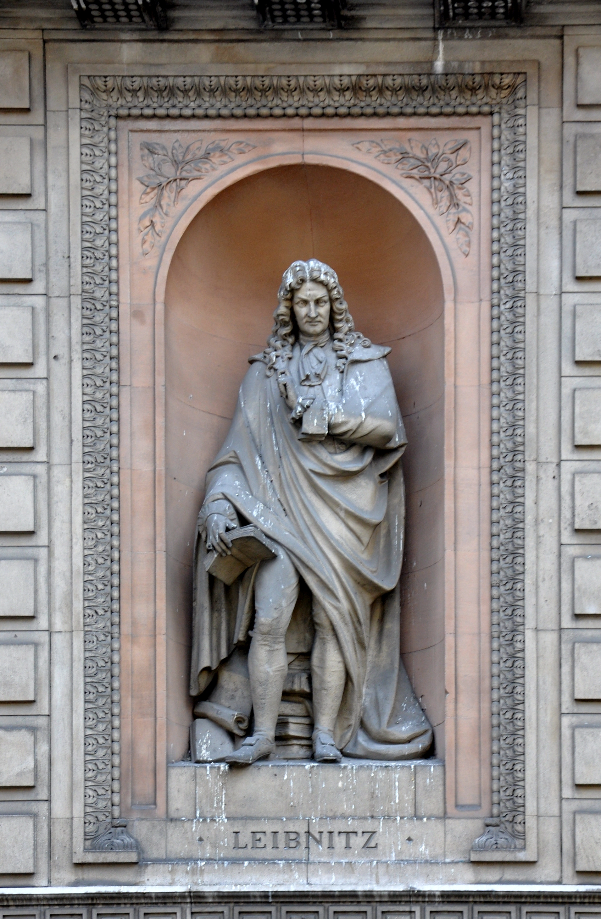 London, 6 Burlington Gardens (built 1867–1870 as headquarters of the University of London), façade statue of Gottfried Wilhelm Leibniz